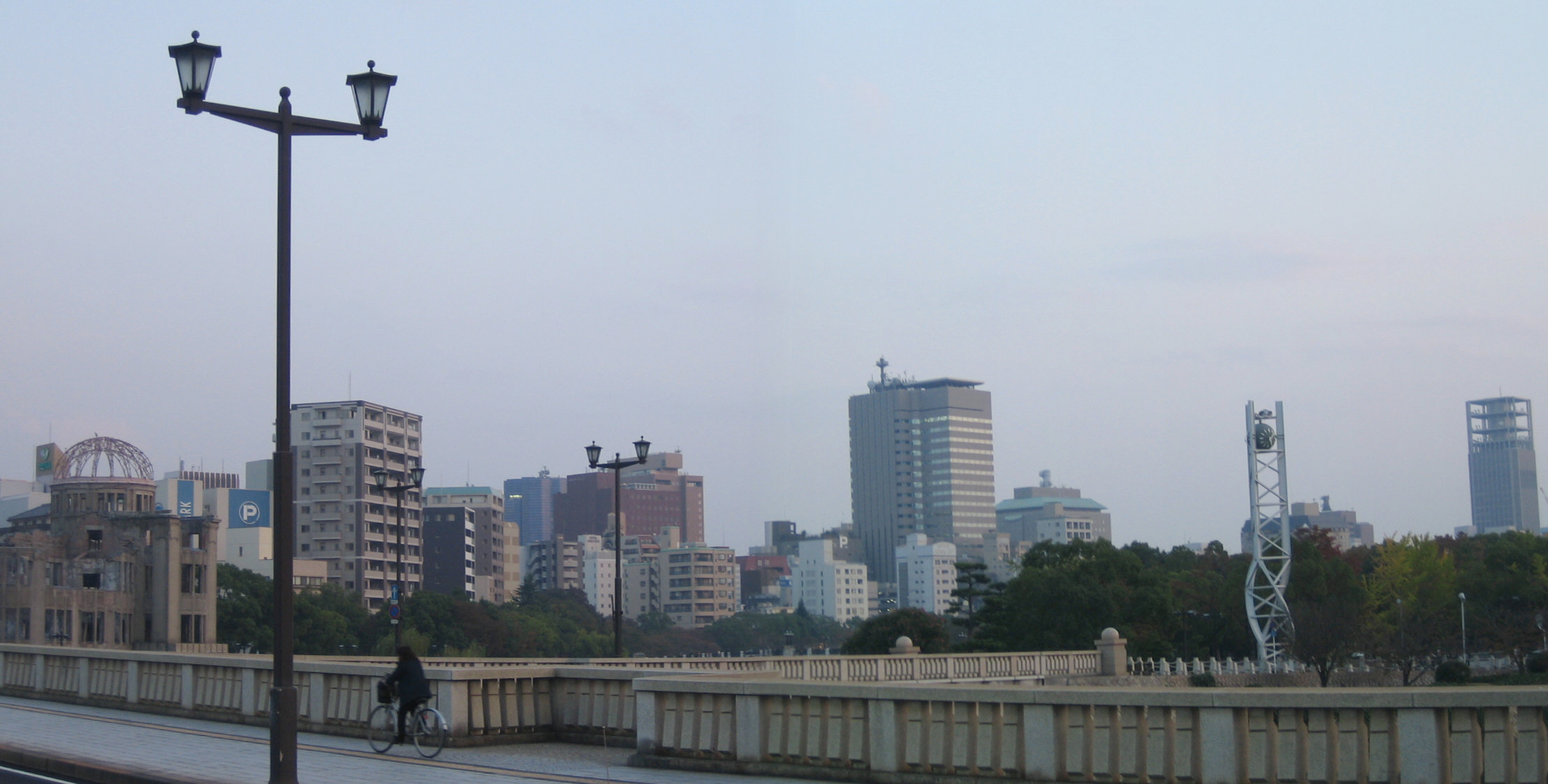 Hiroshima in 2006 (Personal picture taken November 2, 2006)